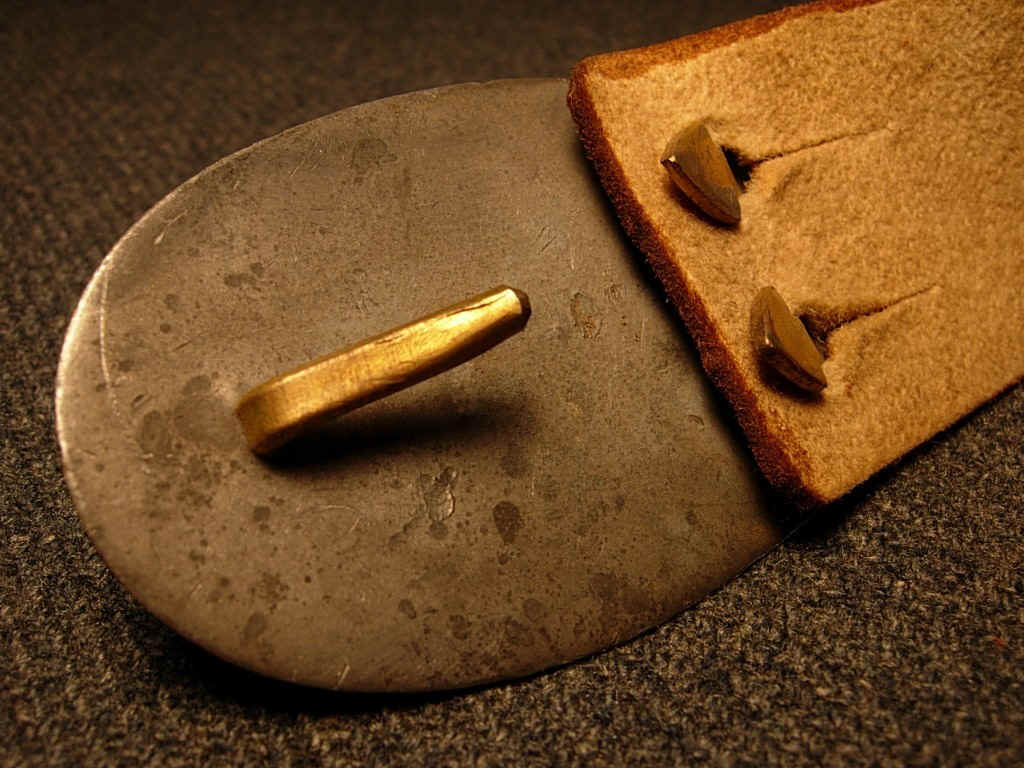 Back side of original US Civil War oval belt buckle showing two-prong chape-end attachment and single-hook mordant.